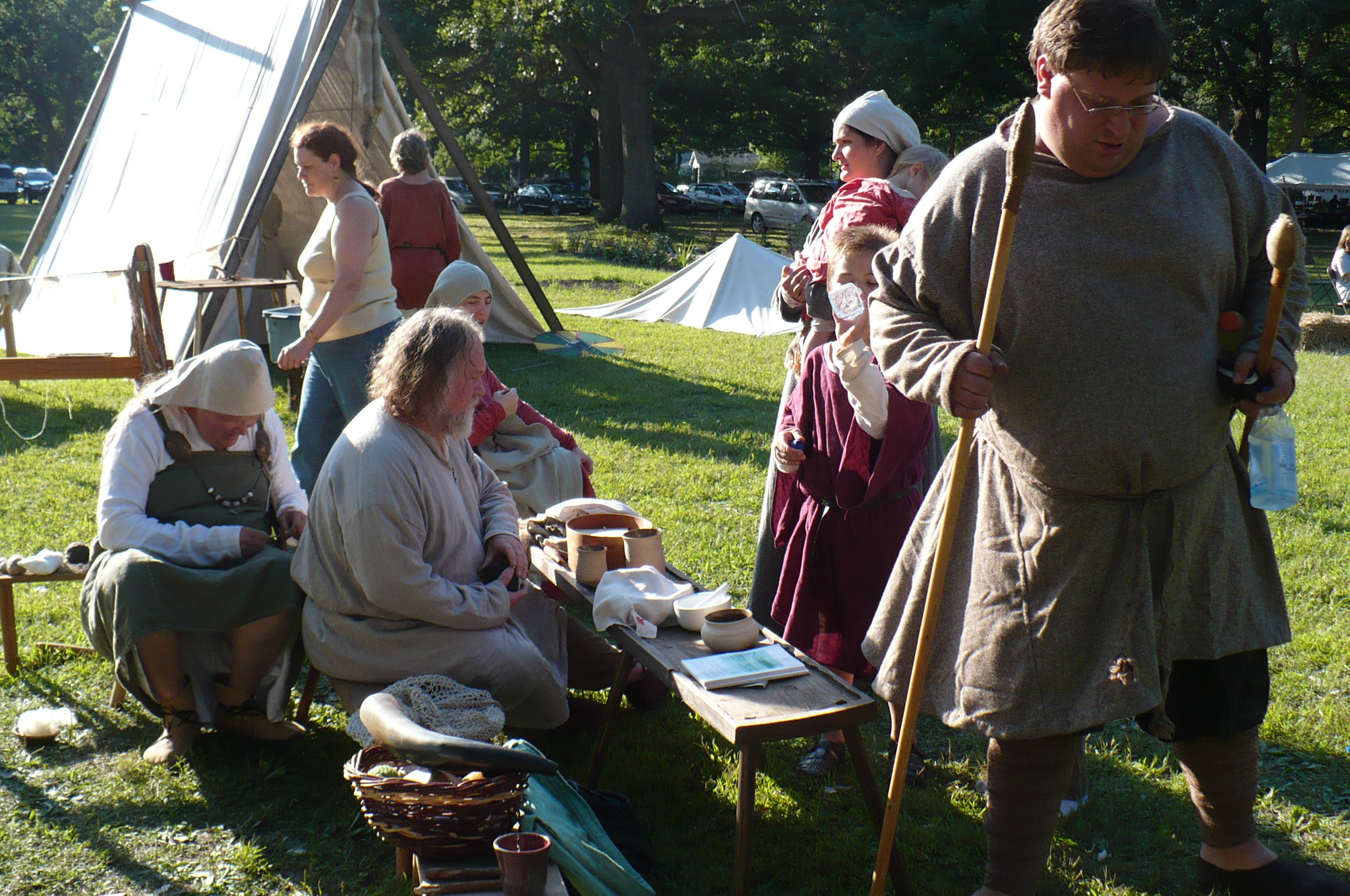 Regia Anglorum members @ Scandinavian Day Festival, S.Elgin, Illinois USA